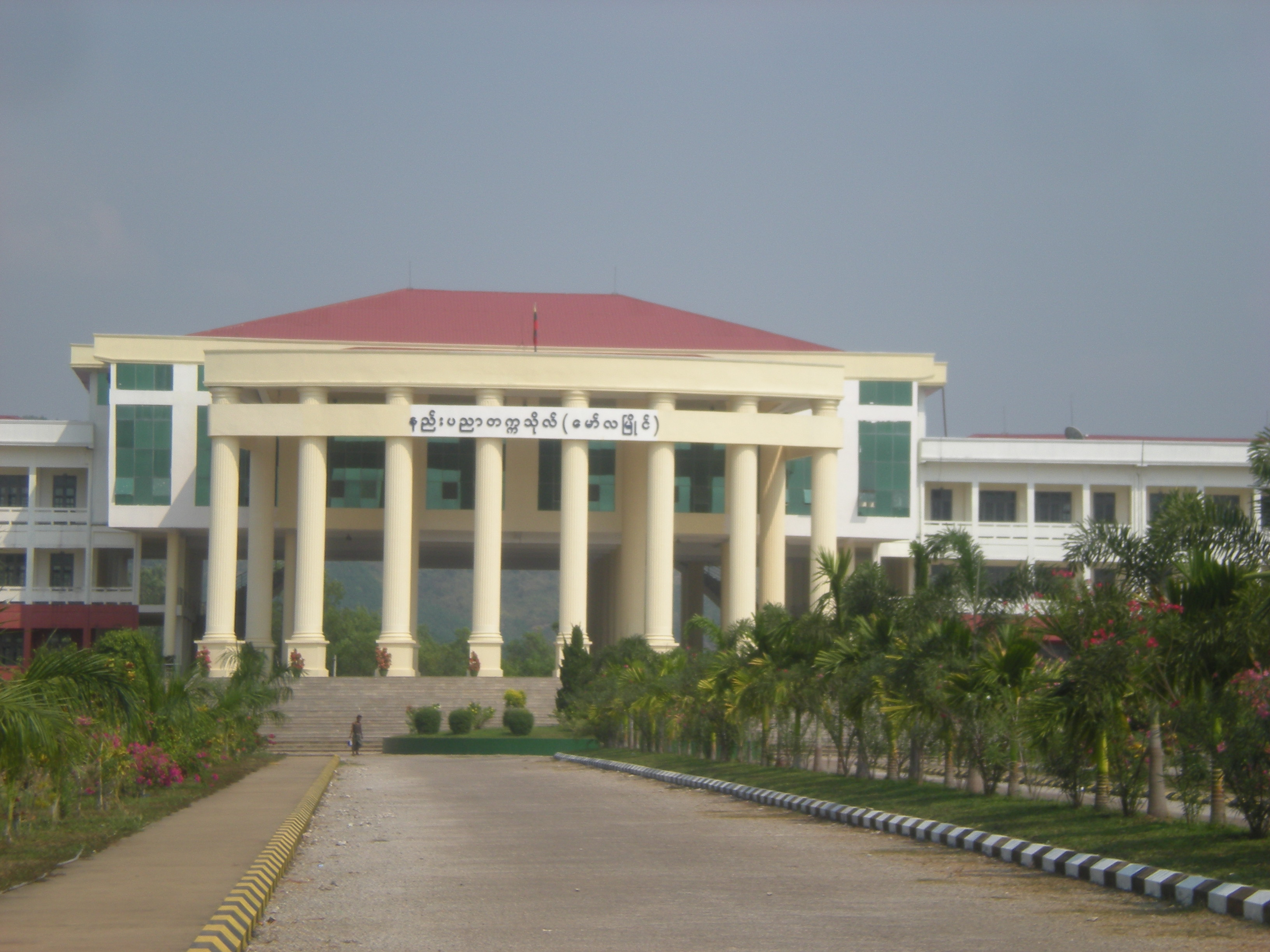 Main Building of the Technological University Mawlamyine